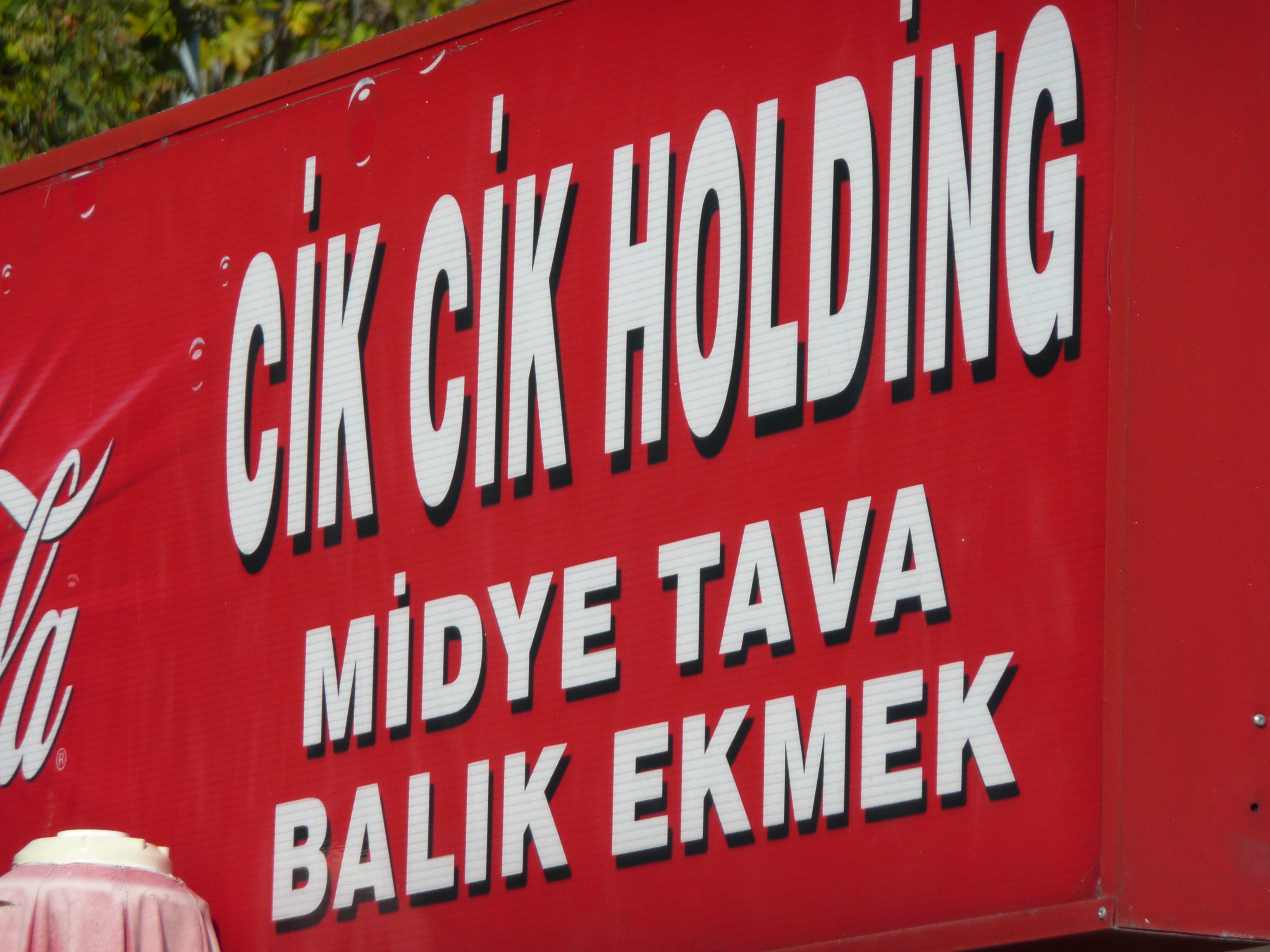 Photographs from Amasra